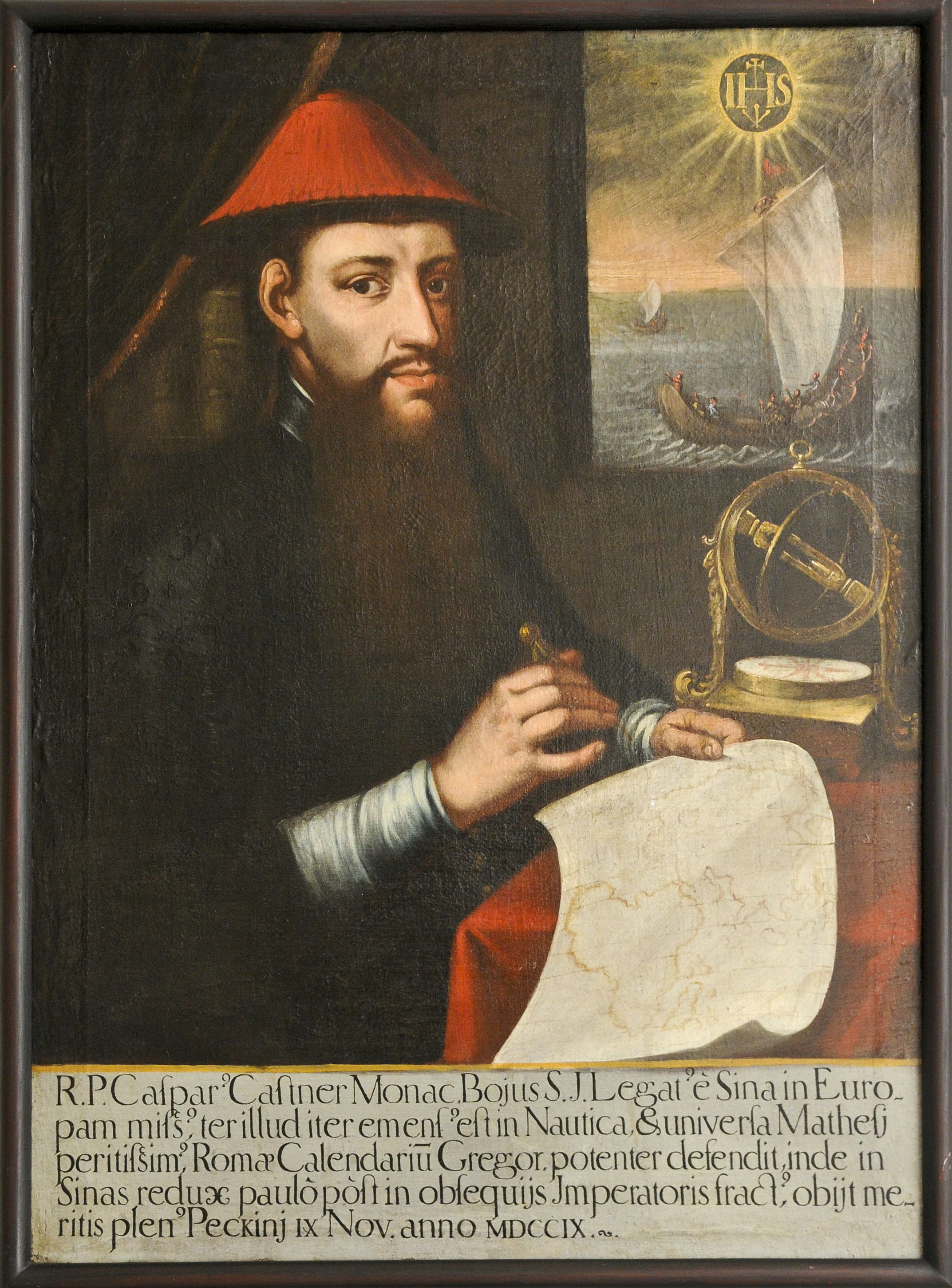 Portrait of P. Caspar Castner S.J. in the government building of the canton of Lucerne